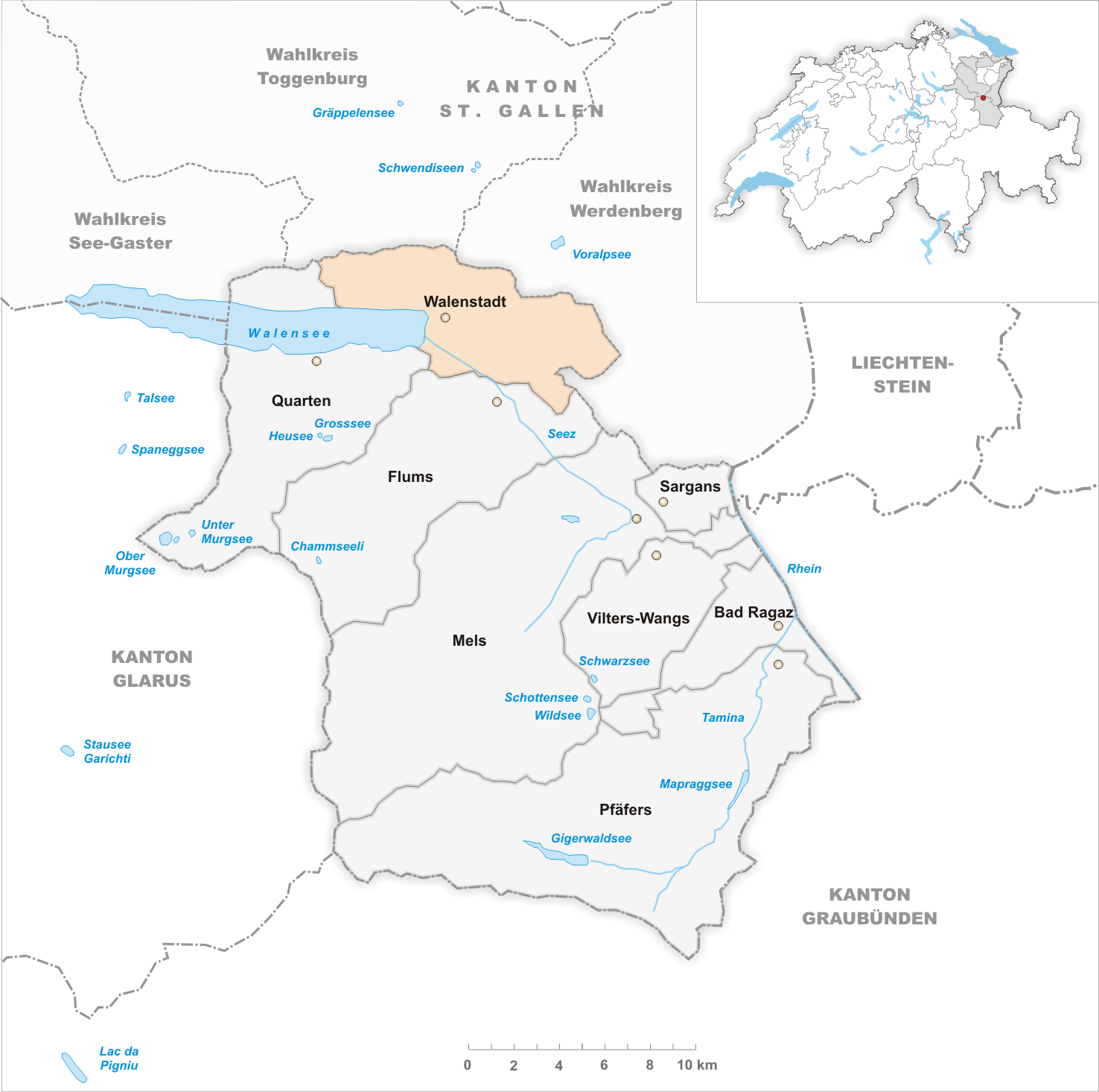 Municipality Walenstadt